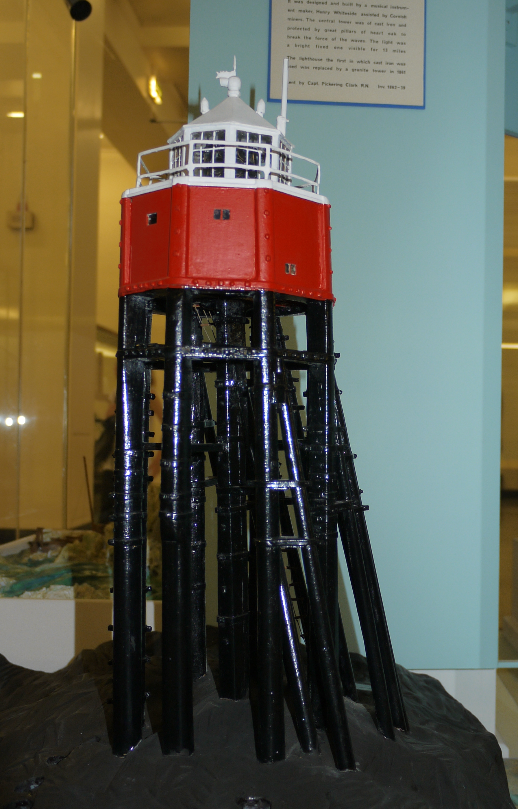 Photo of a model of the original smalls lighthouse